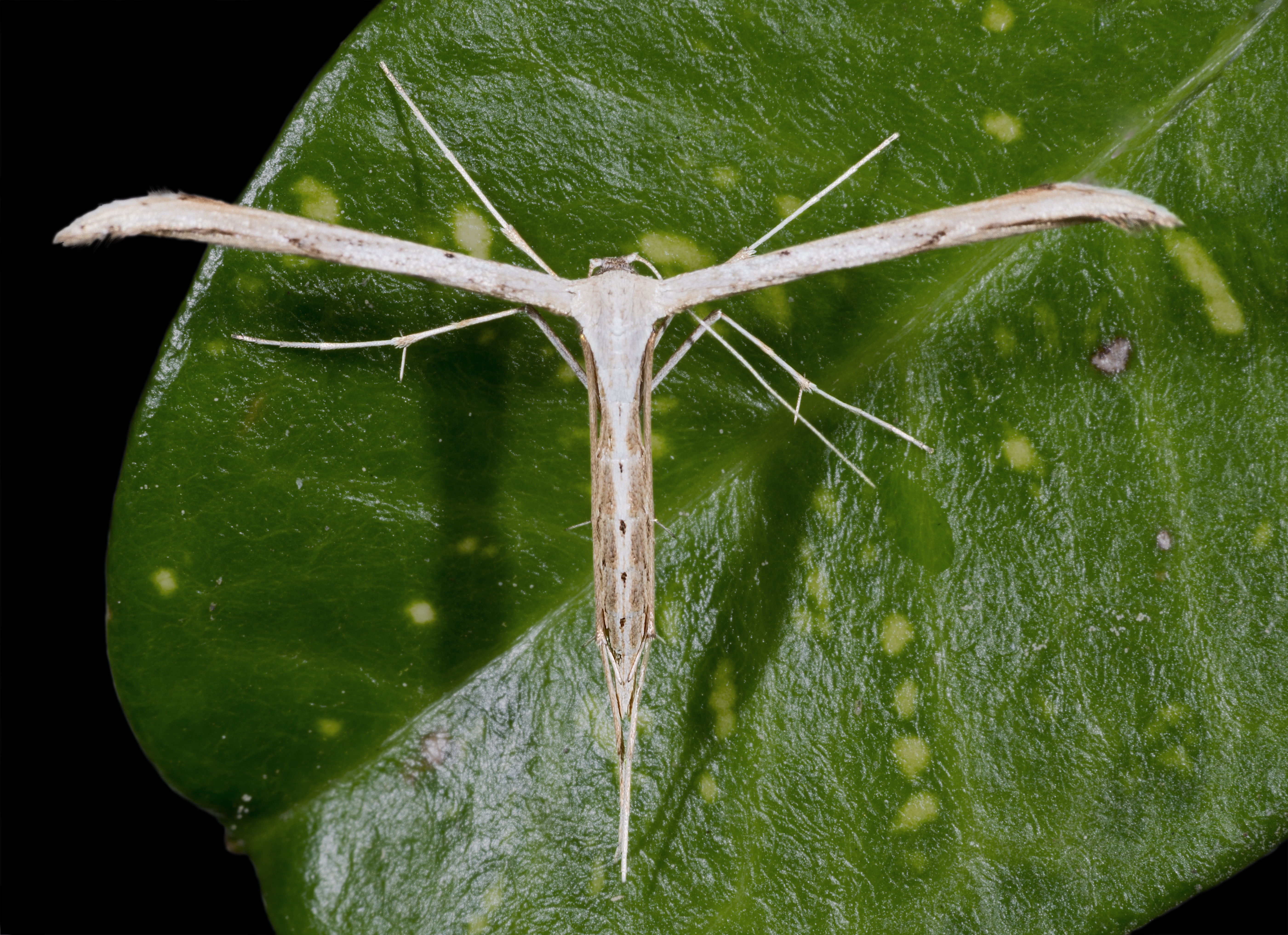 T-Moth